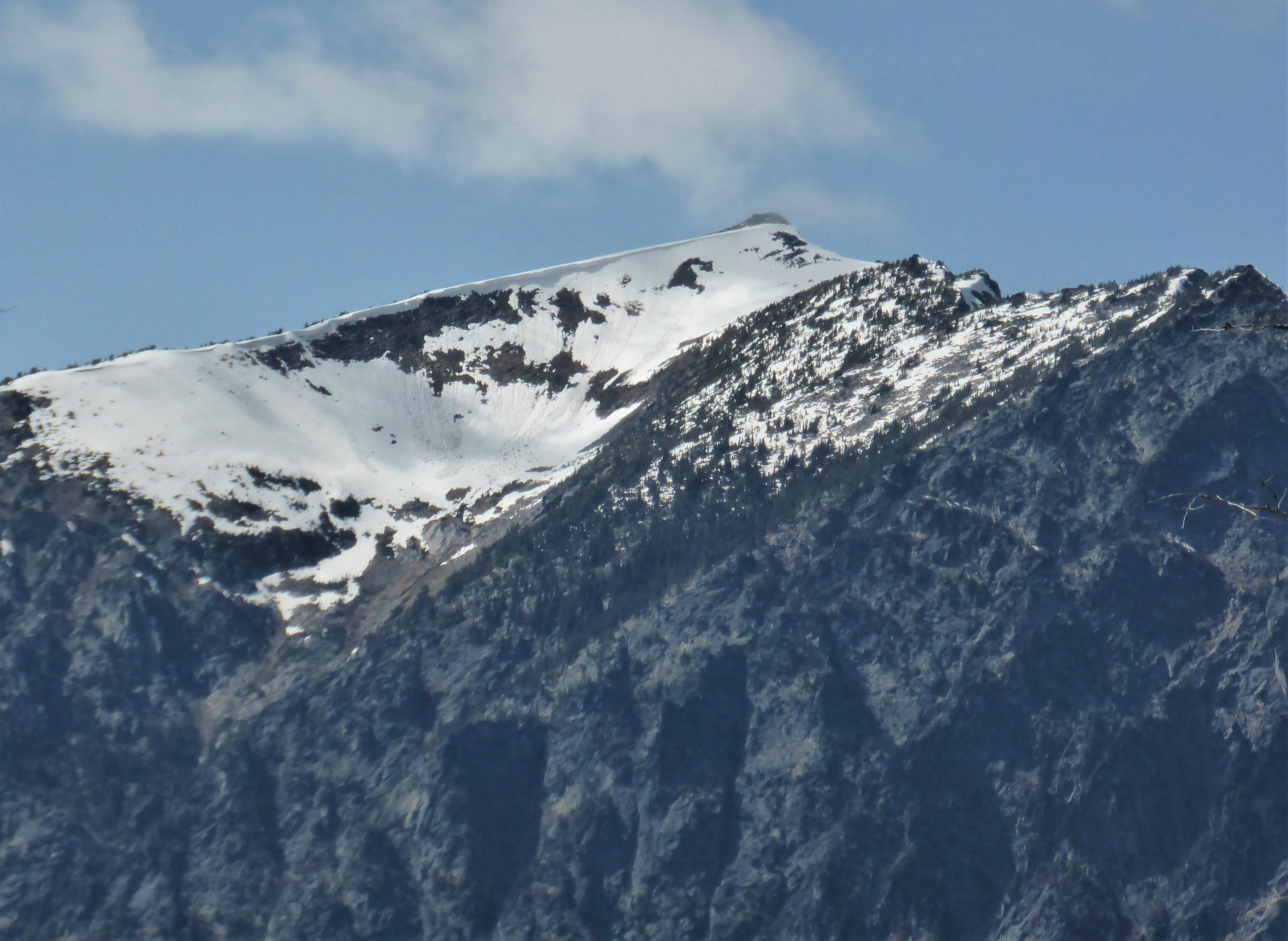 Peak 7763 of Big Lou Mountain seen from southest